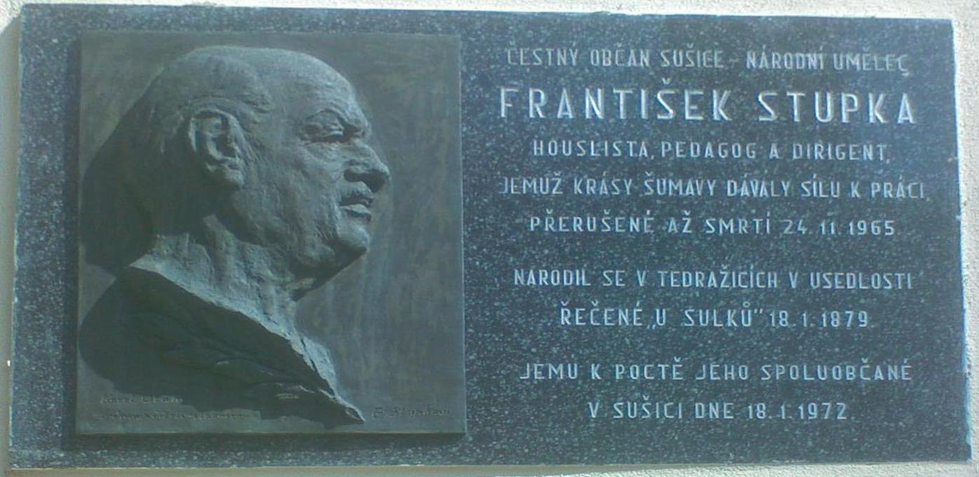 Memorial of František Stupka (edit with GIMP)